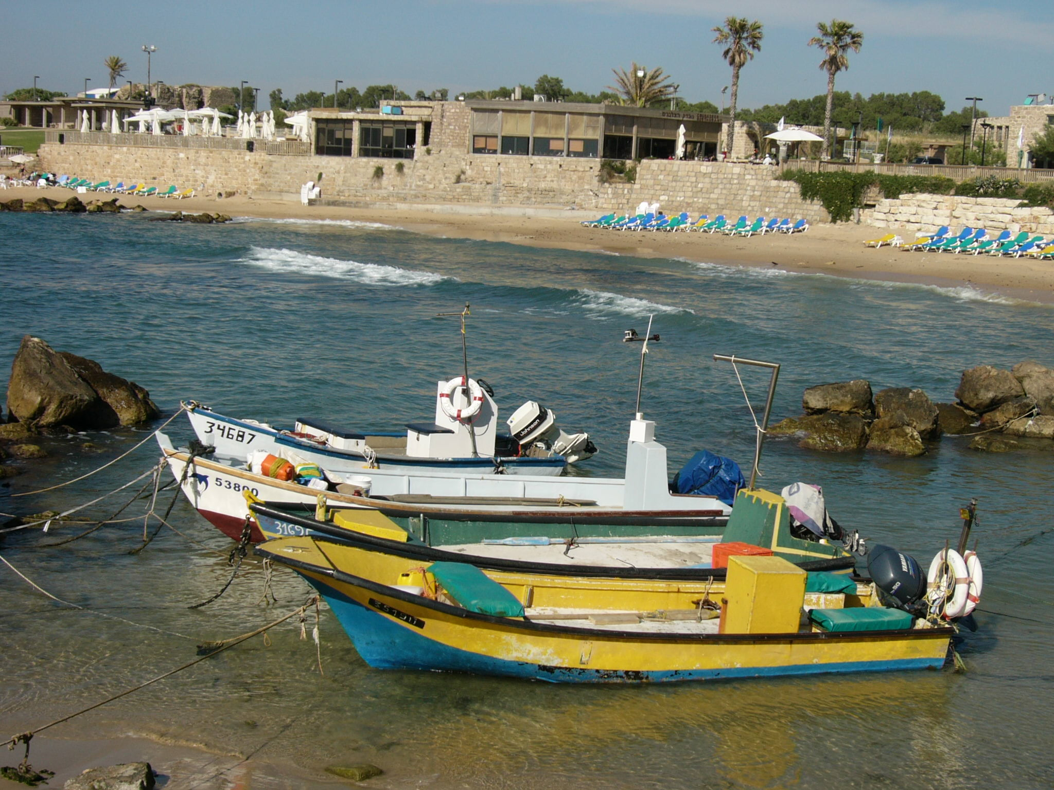 Fishing Boats in Ceasaria